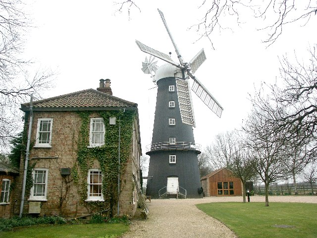 Alford Windmill. This five-sailed windmill has been restored, and grinds organic flour. It is open as a tourist attraction. The last commercial operators of the windmill were the Hoyles family. Purchased by Harry Hoyles, a local farmer and land owner, in the early 20th Century, the business of milling and baking continued until the mid 1950s, run by his sons Walter, Arthur and Winston (The Miller). The business closed due to advancements in technology and the mill was initially sold to a private buyer, but was eventually bought by the Lincolnshire County Council. (In part from Wikipedia)